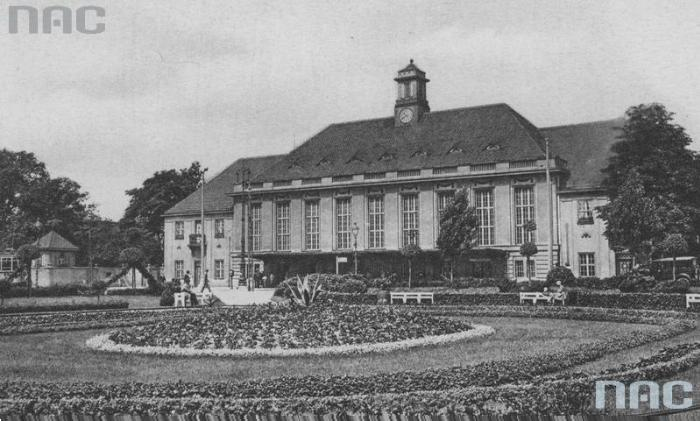 Train station in Bydgoszcz form 1915 to 1968